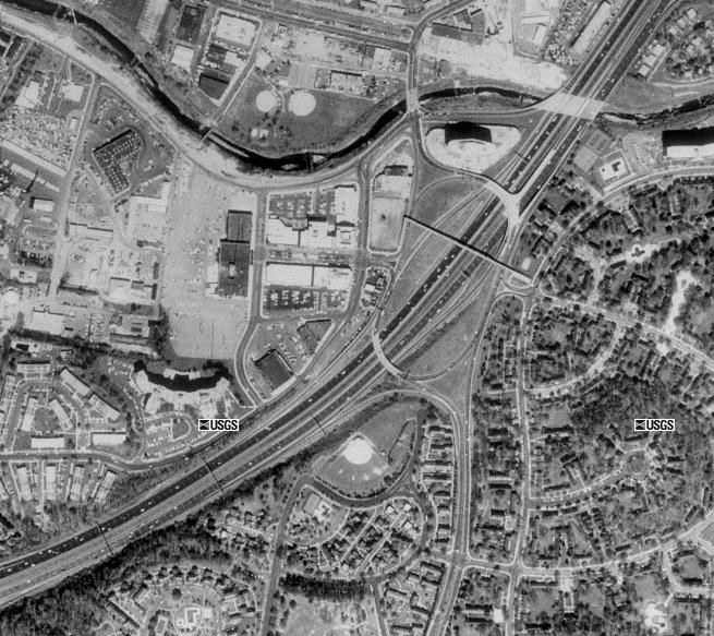 1988 Aerial photo of the Shirlington, Virginia area in the United States